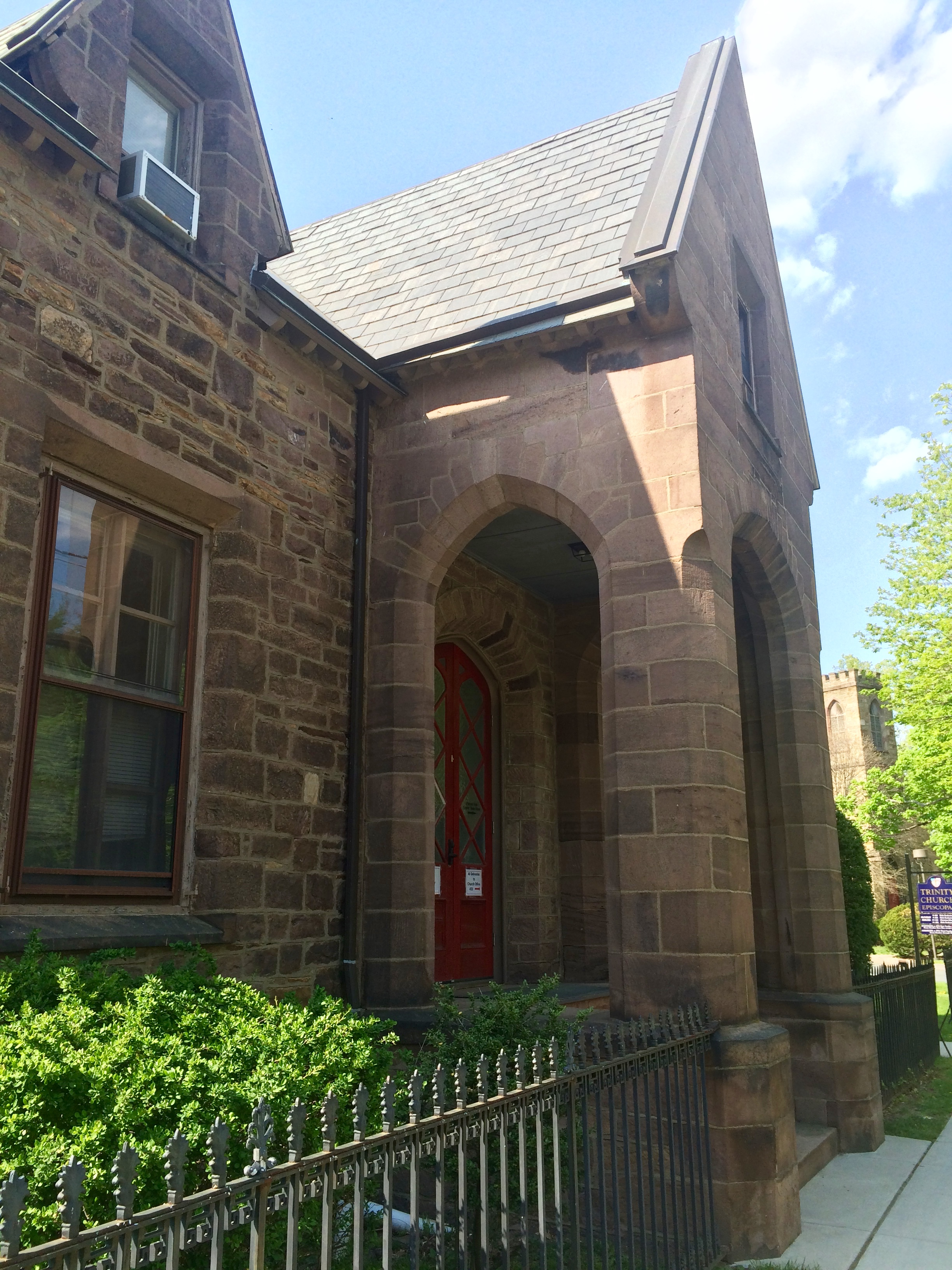 A small gothic building designed by John Notman as the home of the short-lived Princeton University law school. It gave its name to Ivy Club, the university's first eating club which was housed there from its founding in 1879 to 1883. Now the property of Trinity Church and home to its choir. Built in 1847.